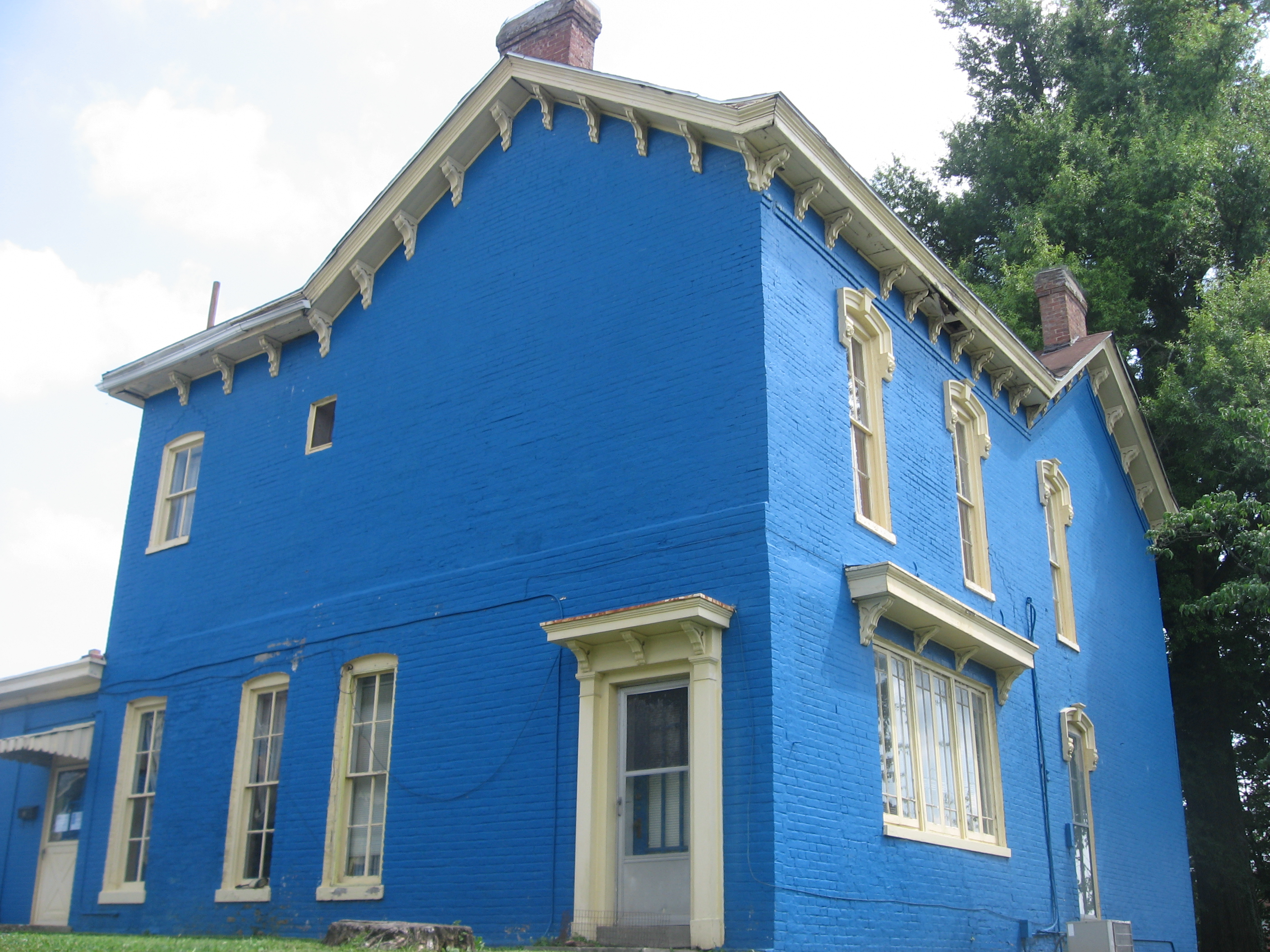 Western side and rear of the Larue-Layman House, located at 115 W. Poplar Street in Elizabethtown, Kentucky, United States. Built in 1863, it is listed on the National Register of Historic Places.